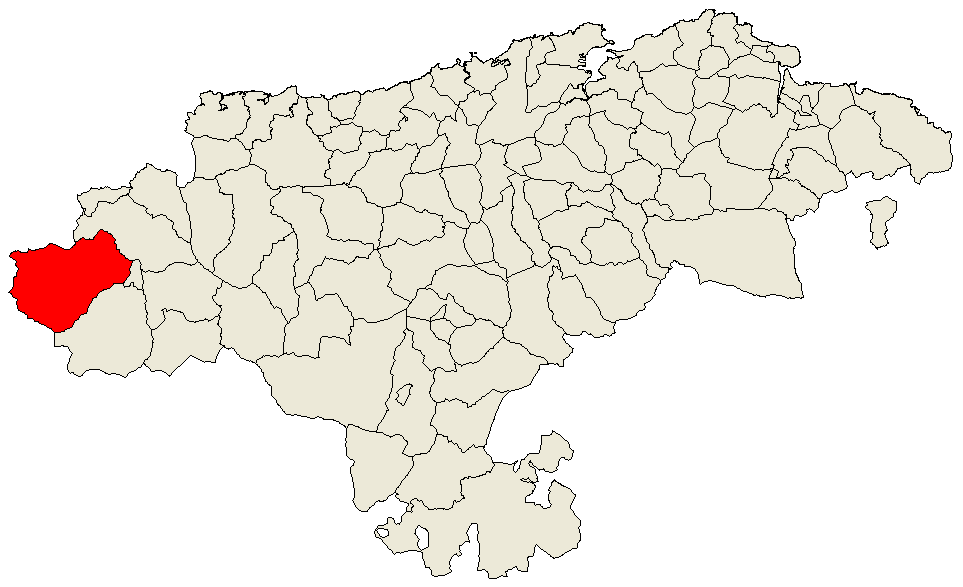 Map of the municipality of Camaleño, Cantabria, Spain